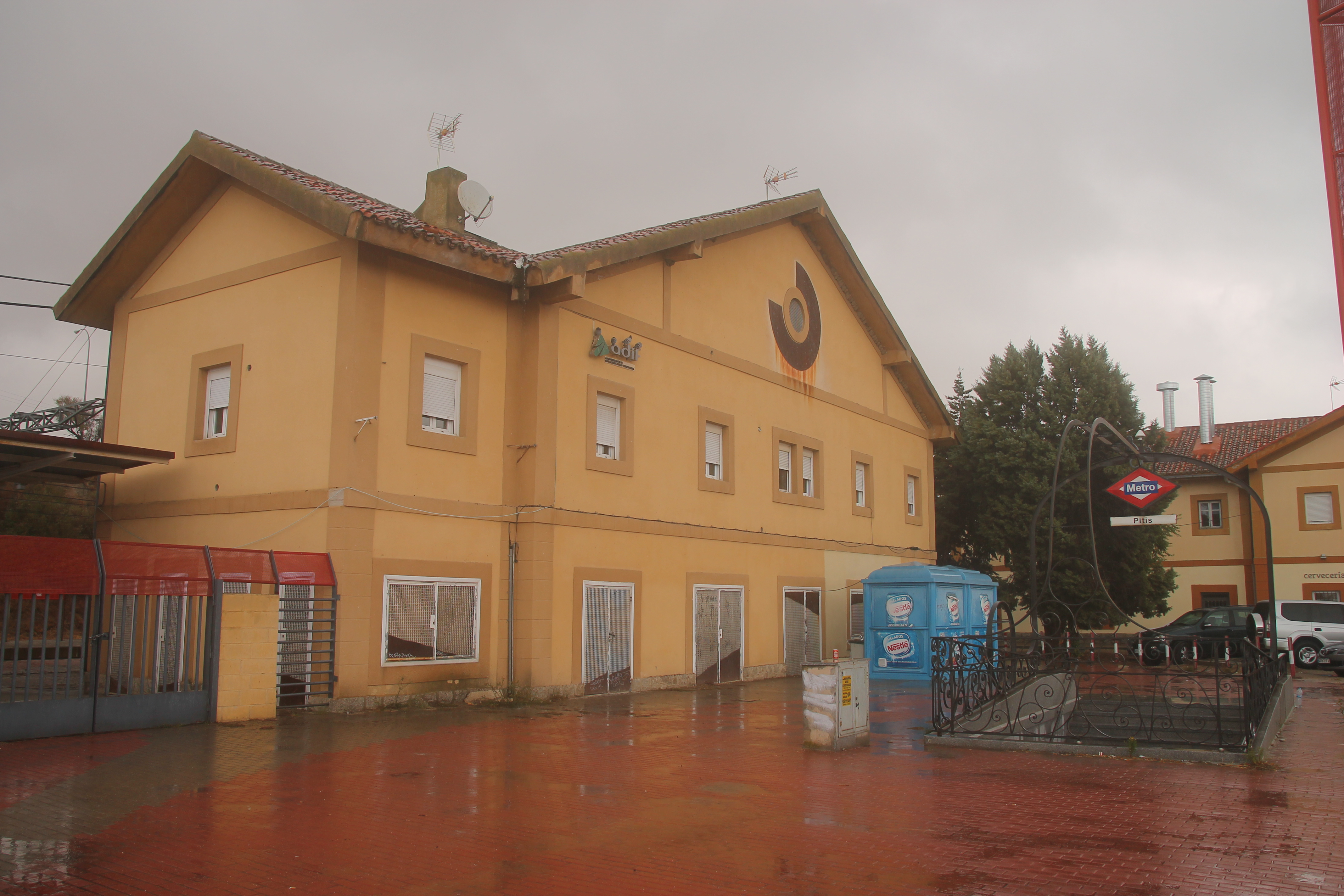 Estación de Pitis